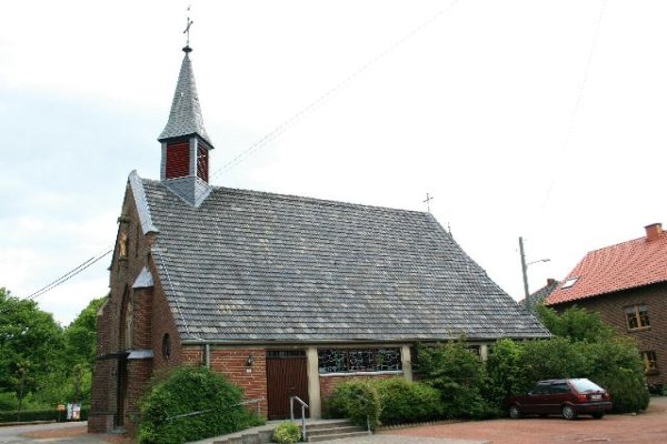 Cultural heritage monument No. 282 in Erkelenz